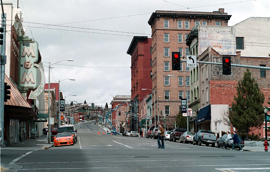 Uptown Butte, looking north, at the intersection of Main Street and Park Street. This photo was taken in April, 2006. Summary Uptown Butte, looking north, at the intersection of Main Street and Park Street. This photo was taken in April, 2006.